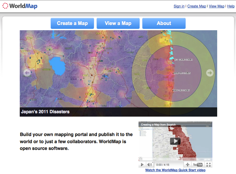 a screenshot of the WorldMap front page